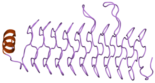 Cartoon representation of the molecular structure of protein registered with 3du1 code.